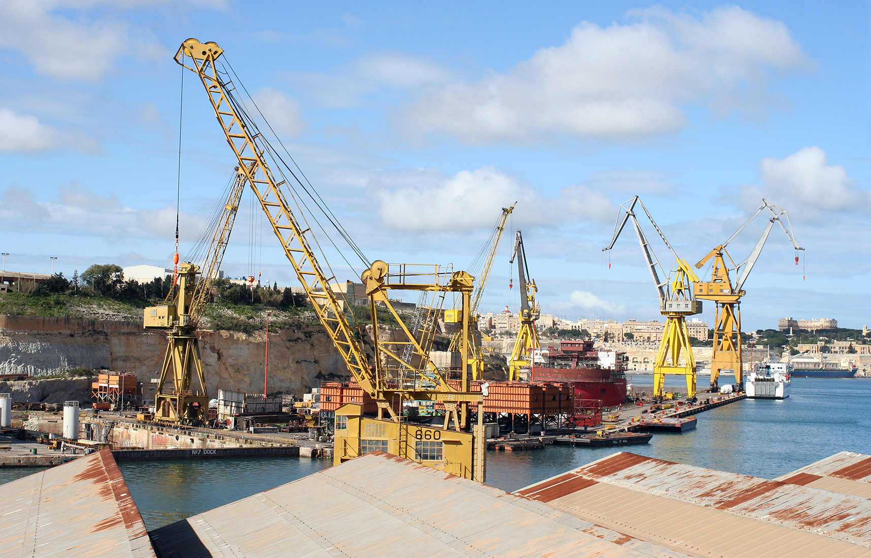 Malta, Grand Harbour, Dry Docks